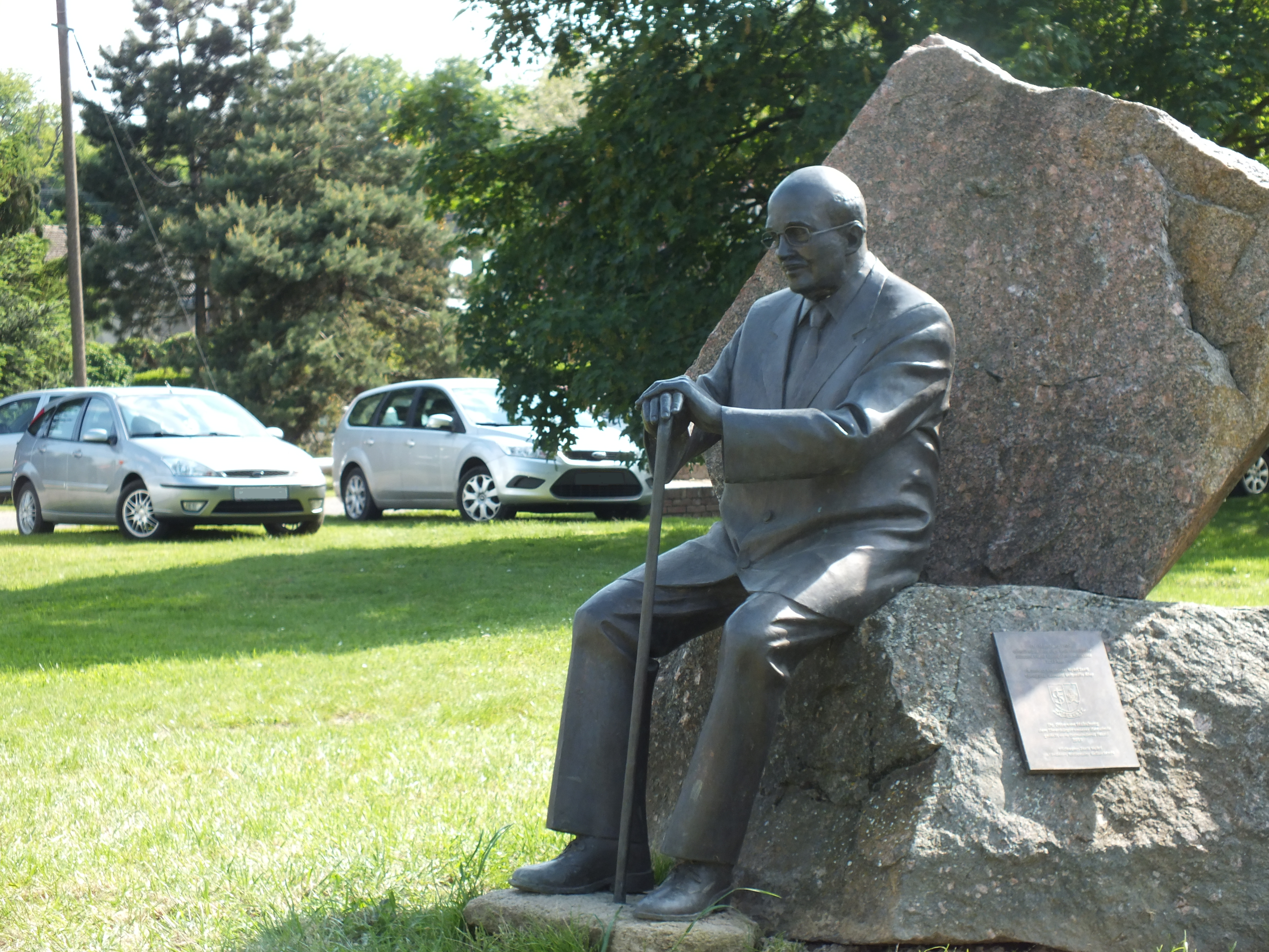 statue of Otto von Habsburg by Zsolt Nyári (2015 bronze) in Feked